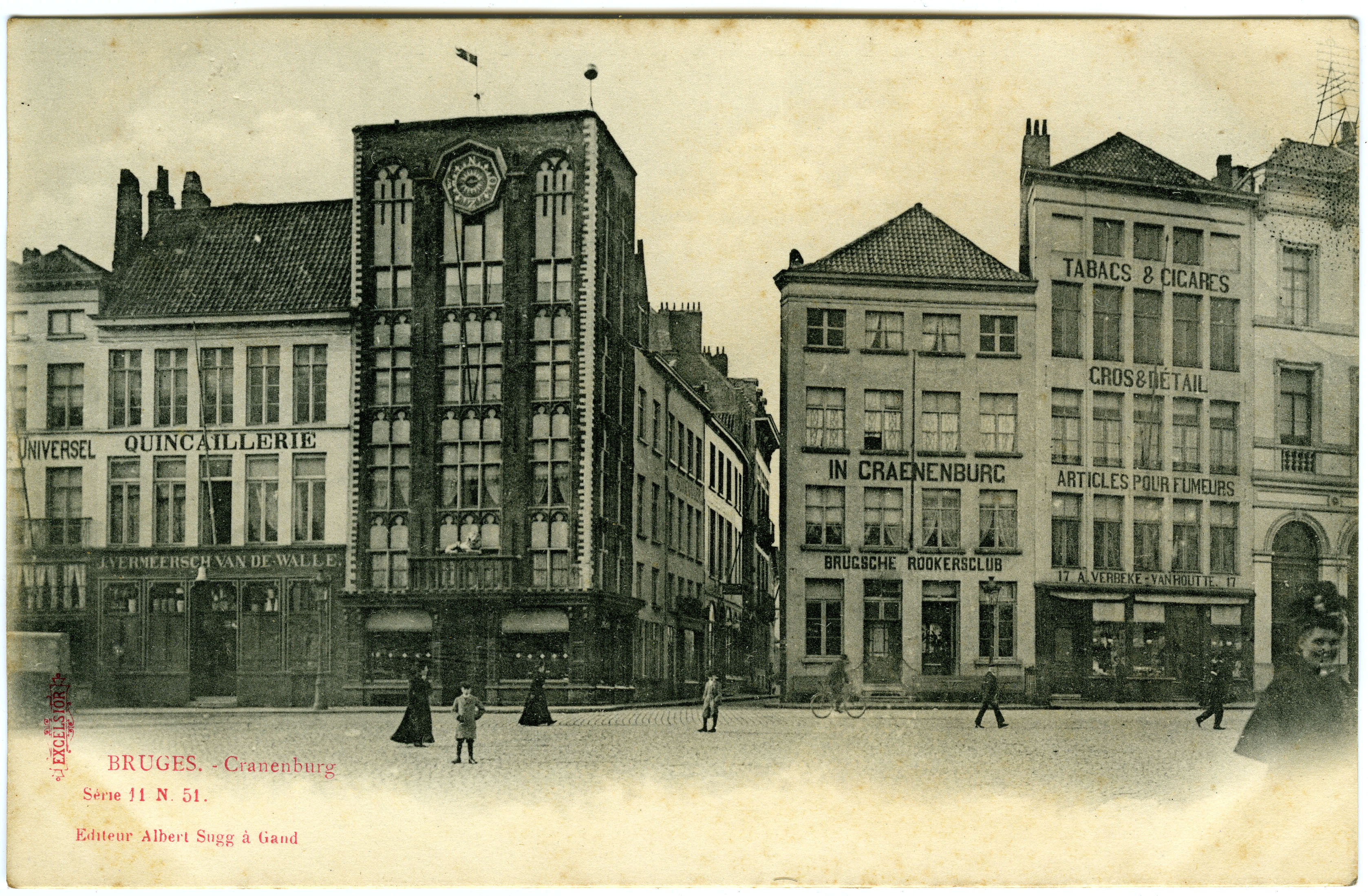 Postcard of Bruges, Belgium showing the Cranenburg House (Excelsior Series 11, No. 51, Albert Sugg a Gand; ca. 1905). "Cranenburg, from the windows of which, in olden times, the Counts of Flanders, with the lords and ladies of their Court, used to watch the tournaments and pageants for which Bruges was celebrated, and in which Maximilian was imprisoned by the burghers in 1488" Bruges and West Flanders, George W. T. Omond, Illustrated by Amédée Forestier, Project Gutenberg Edition.